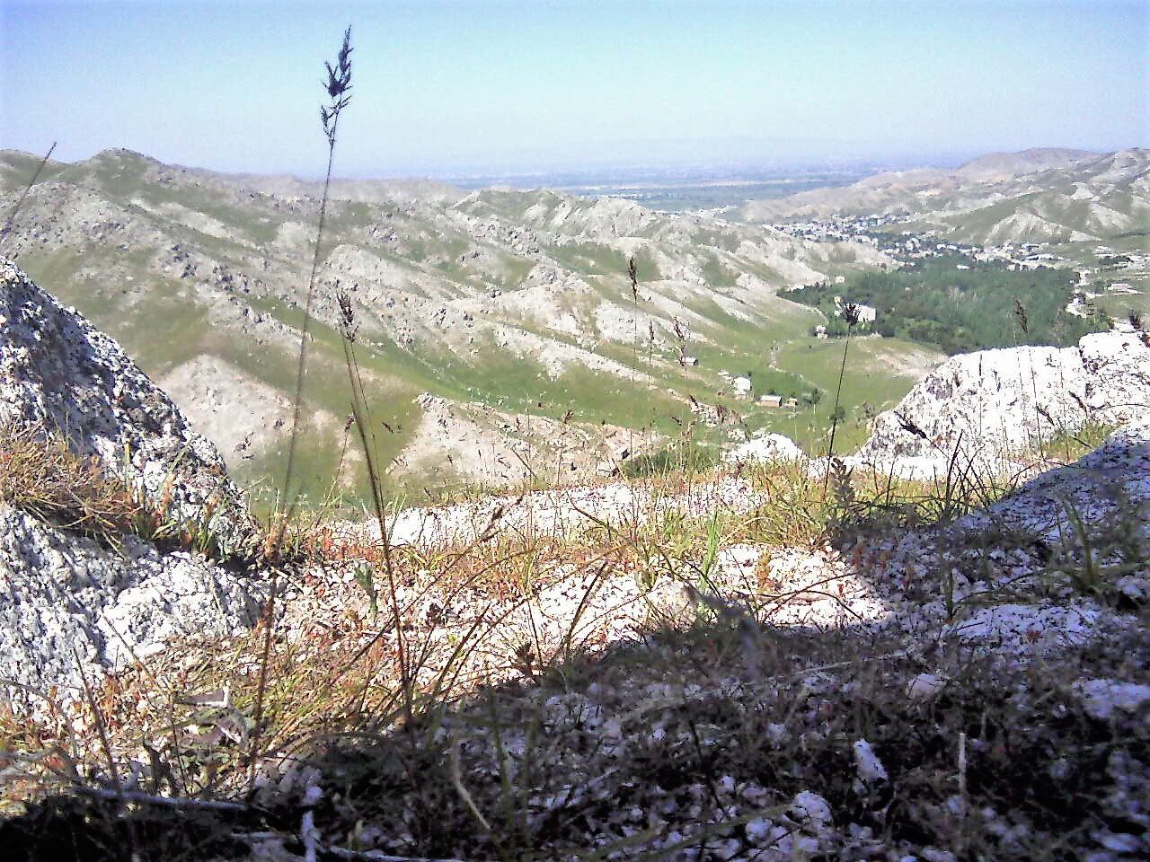 Miranqul mountains (Samarkand, Uzbekistan)Oʻzbekcha/ўзбекча: Mironqul tog'lari (Samarqand, O'zbekiston)